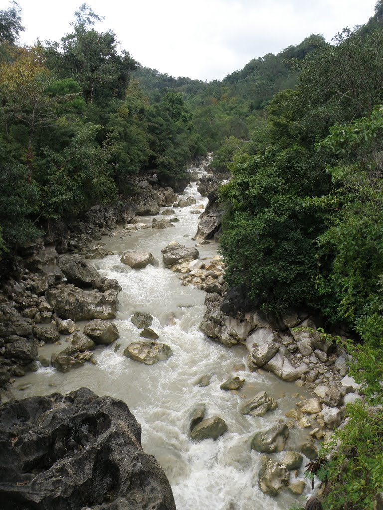 Cuha River quiet on 25 Jul 2010 before heavy rain, at the border of Loi-Huno and Ossu de Cima